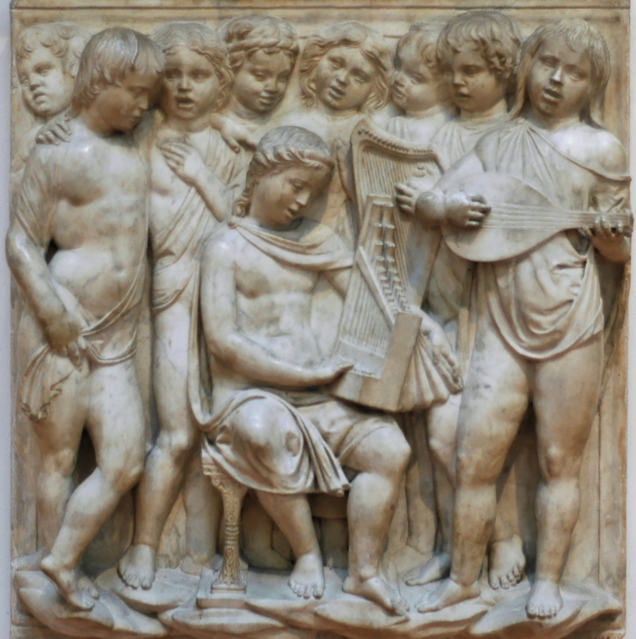 Children singing and playing music, illustration of Psalm 150 (Laudate Dominum). Panel decorating the cantoria (singers' gallery), actually a balcony for the 1438' organ of the Duomo. Museo dell'Opera del Duomo, Florence, Italy. Marble.